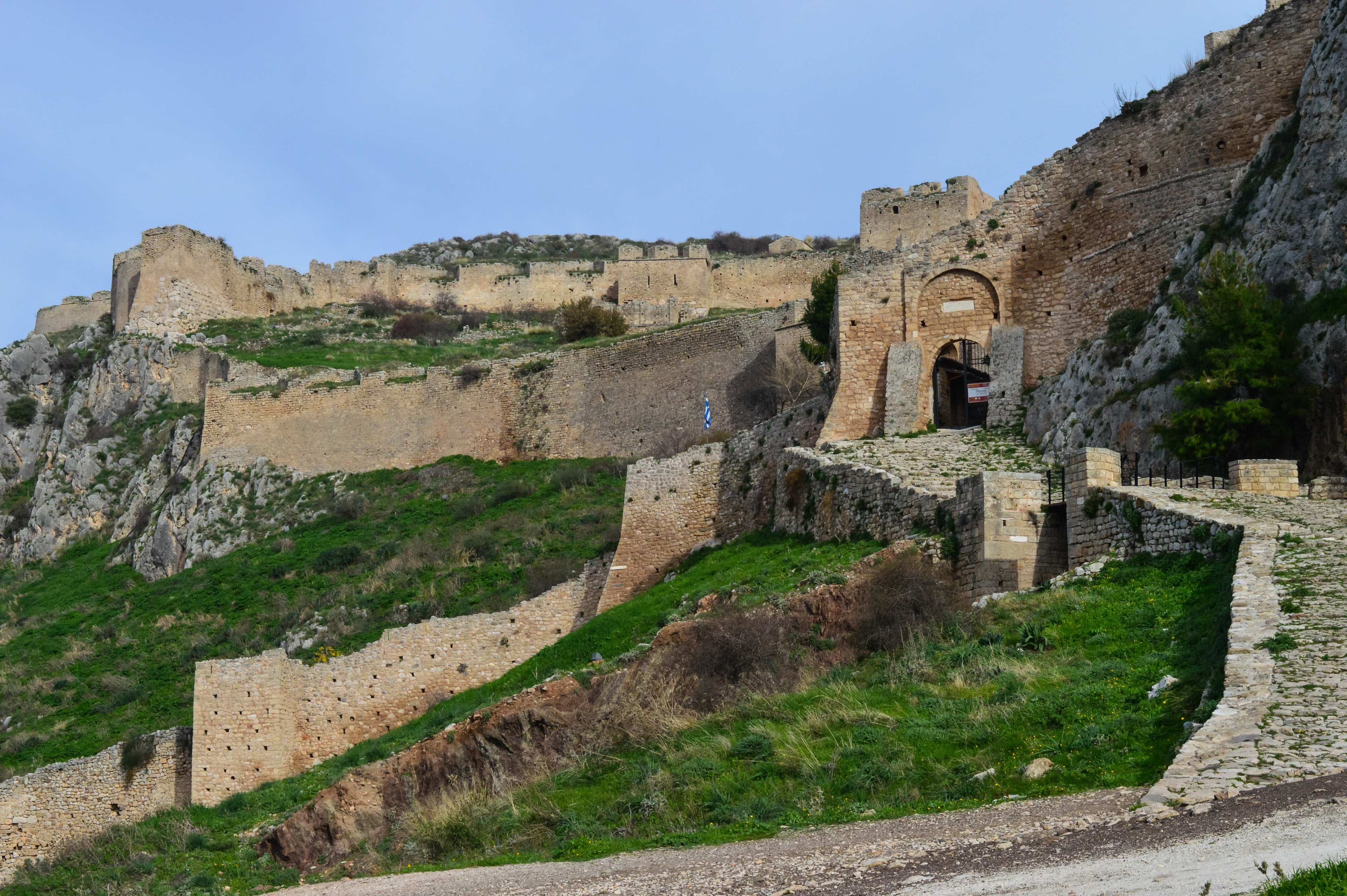 This is a photography of Natura 2000 protected area with ID GR2530003